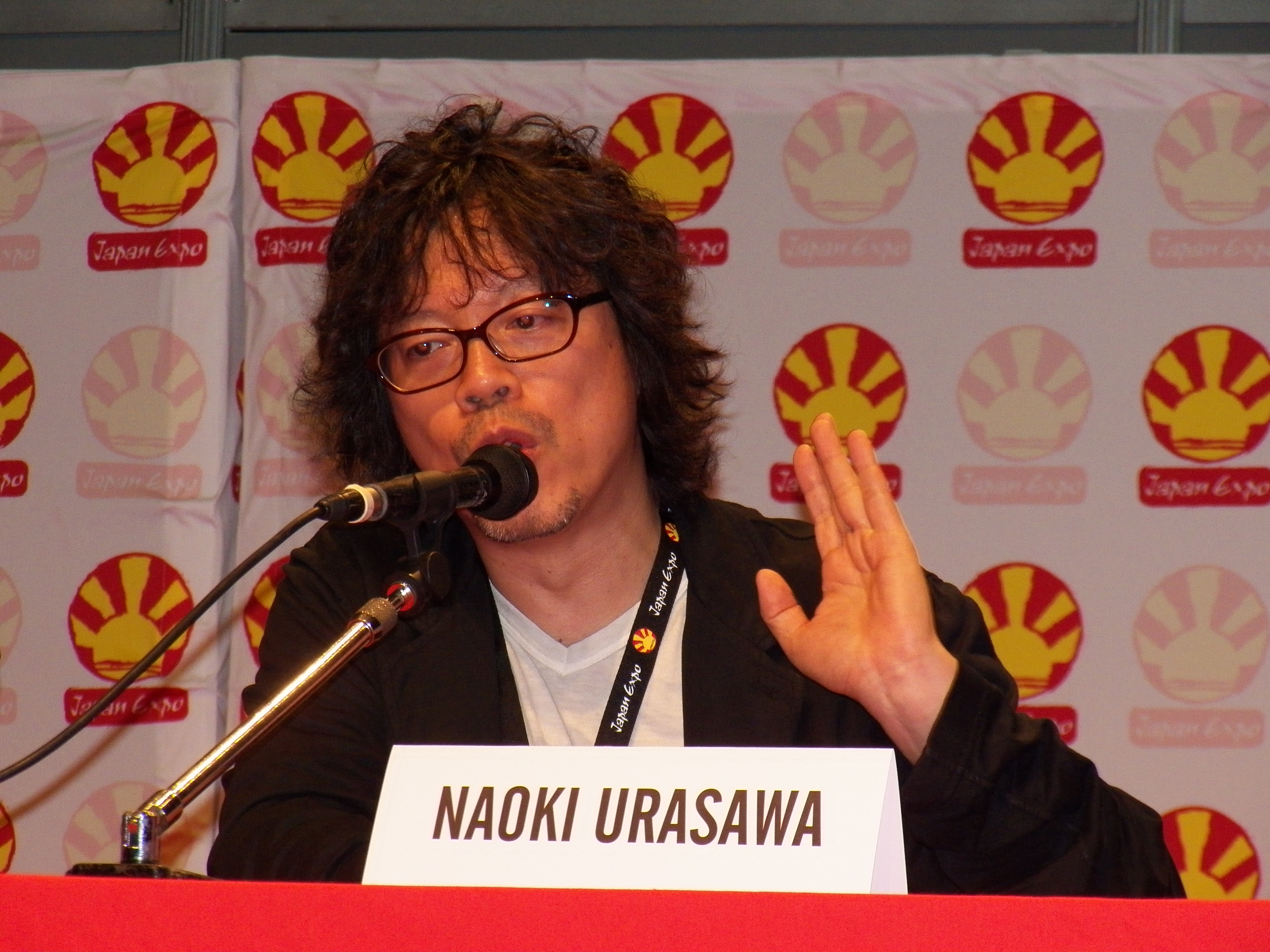 Conference at Japan Expo, Paris.